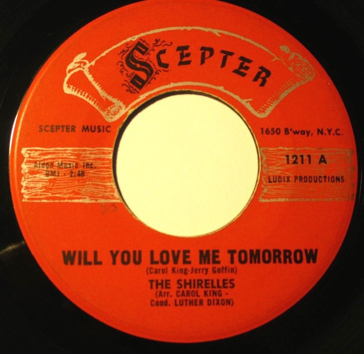 The disc for the first The Shirelles song to top the Hot 100, "Will You Love Me Tomorrow"